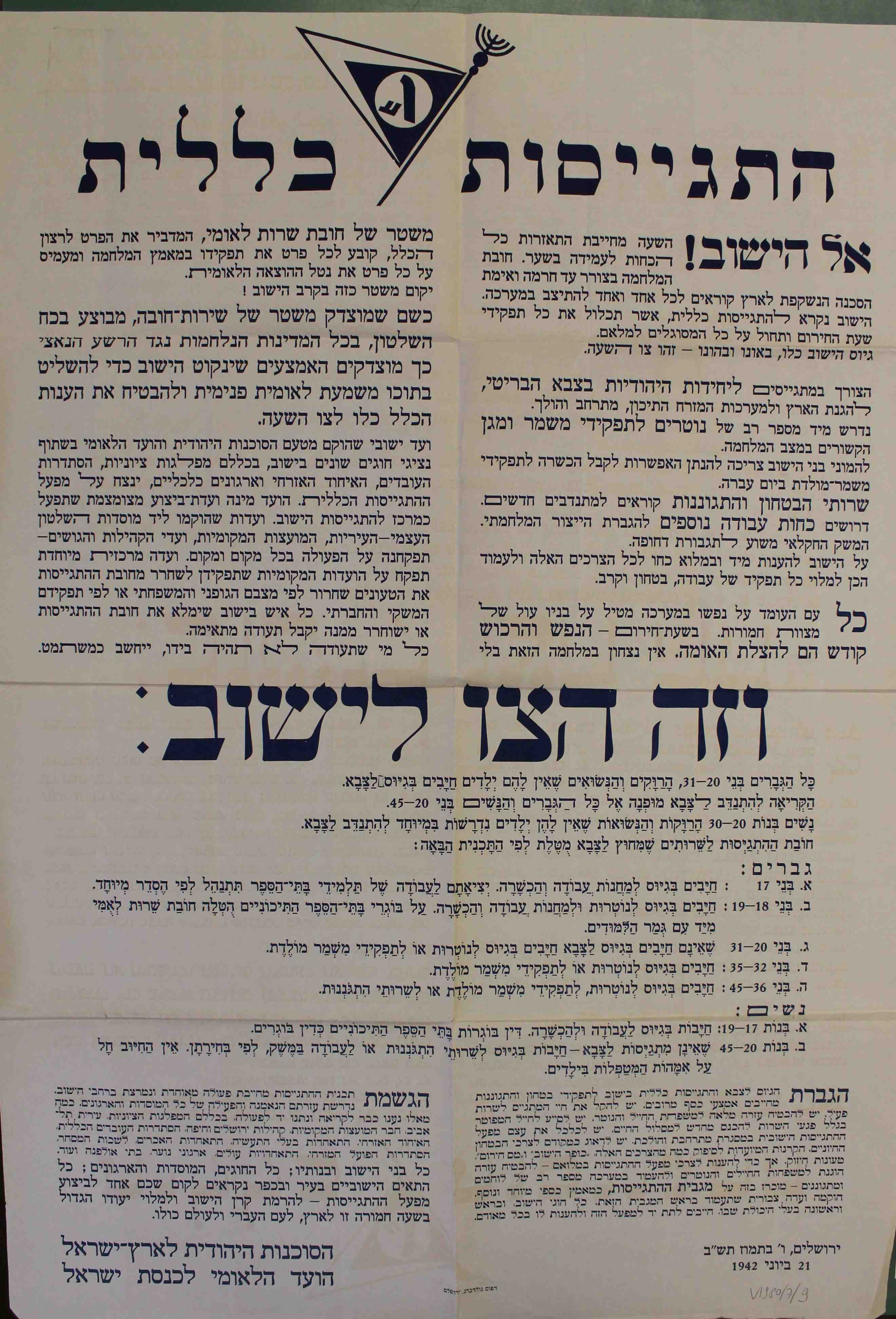 A call to Arms of the Jewish Settlements during World World II